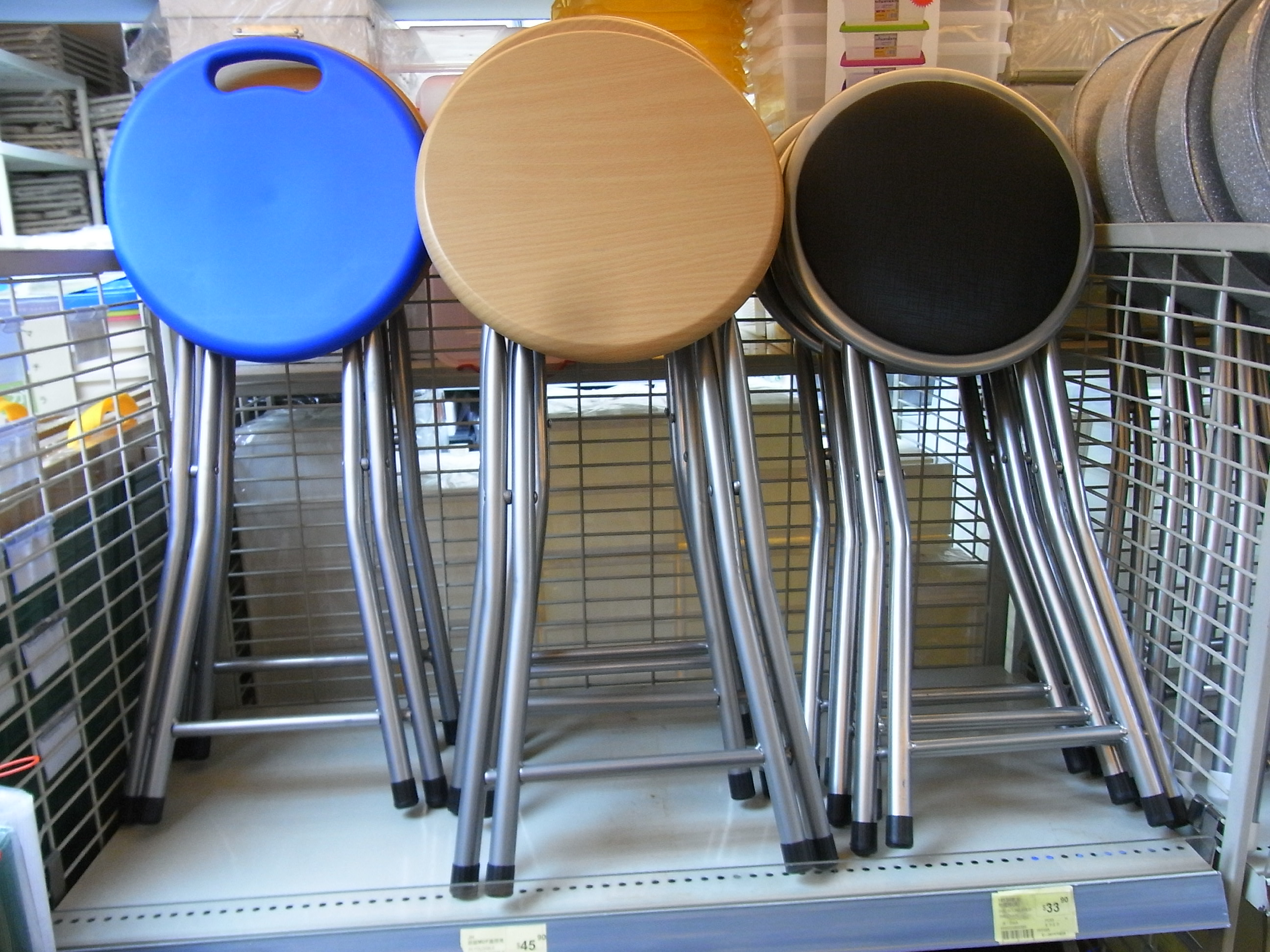 日本城 摺凳, Folding furniture, Japan Home Centre, Hong Kong